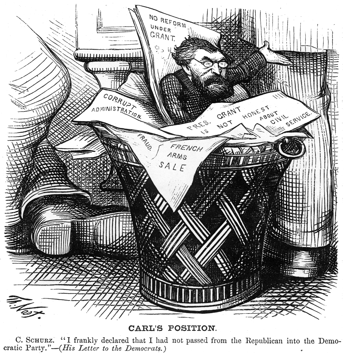 U.S. Senator Carl Schurz's head and shoulders stick out of a basket-weave trash receptacle; one of his arms sticks out indignantly to one side. A huge desk behind him and pairs of giant legs on either side of him lend him a pygmyish look. In the receptacle he is surrounded by papers with various issues he has worked on in the U.S. Senate.